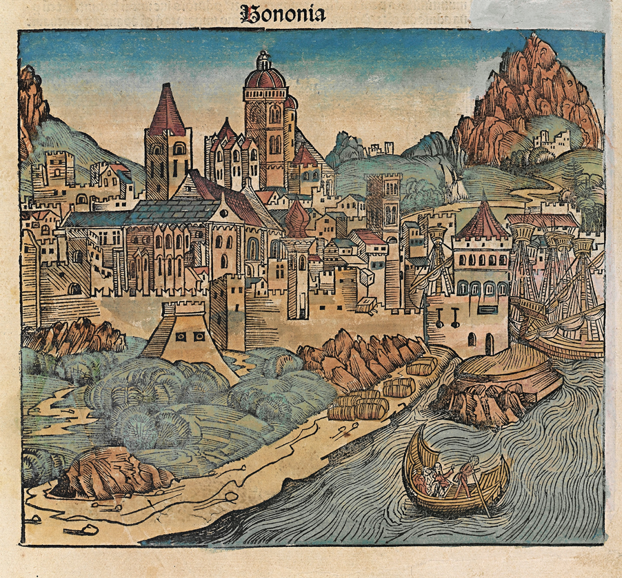 Bononia. Woodcut from the Nuremberg Chronicle